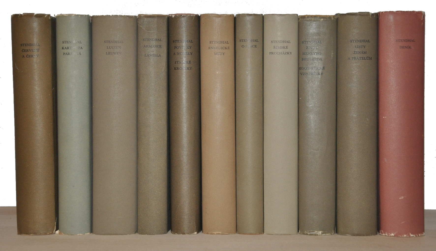 Works of Stendhal in Czech, 11 volumes in Knihovna klasiků, 1958 - 1983.